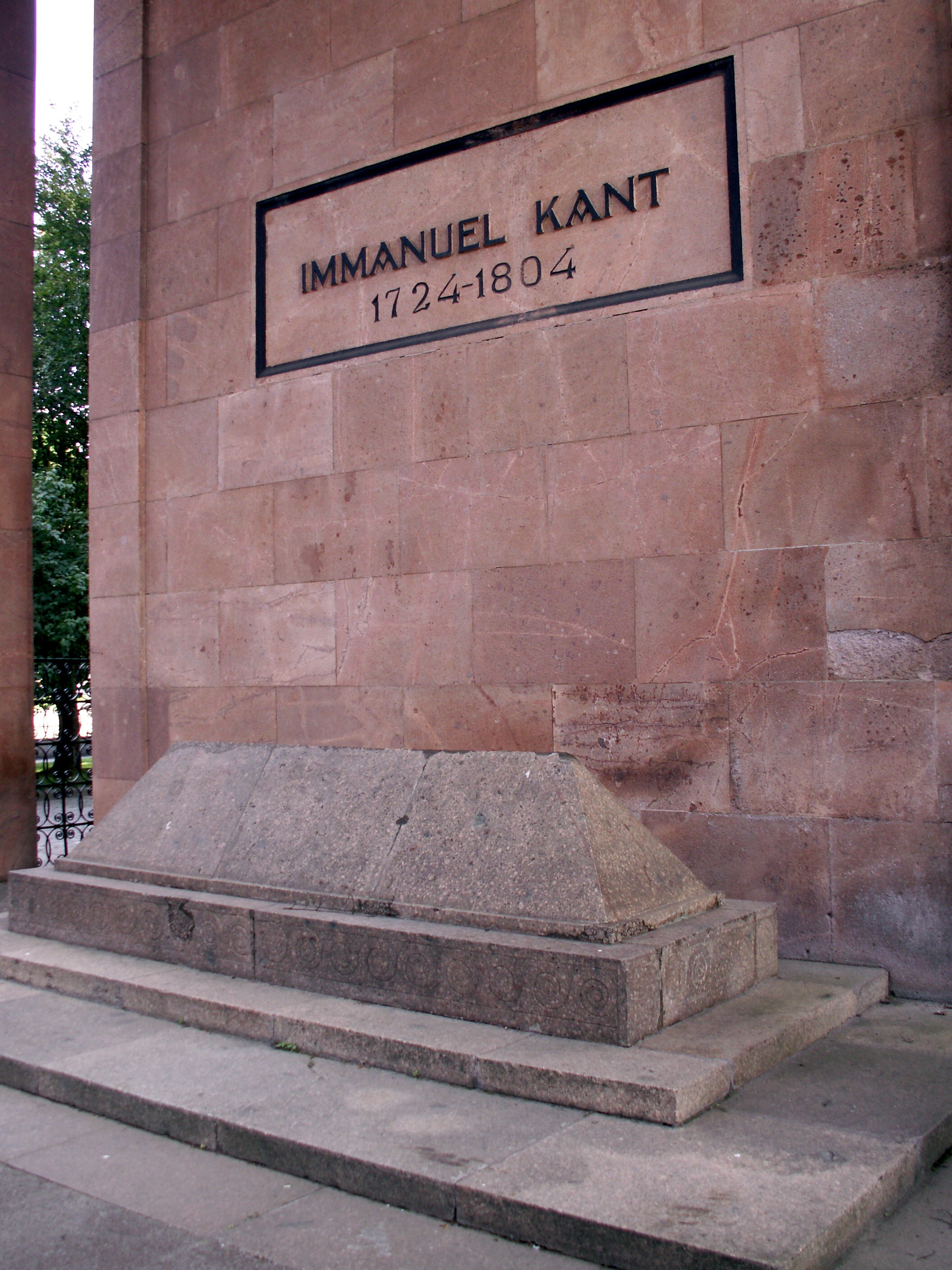 Tomb of Immanuel Kant in Königsberg cathedral in Kaliningrad